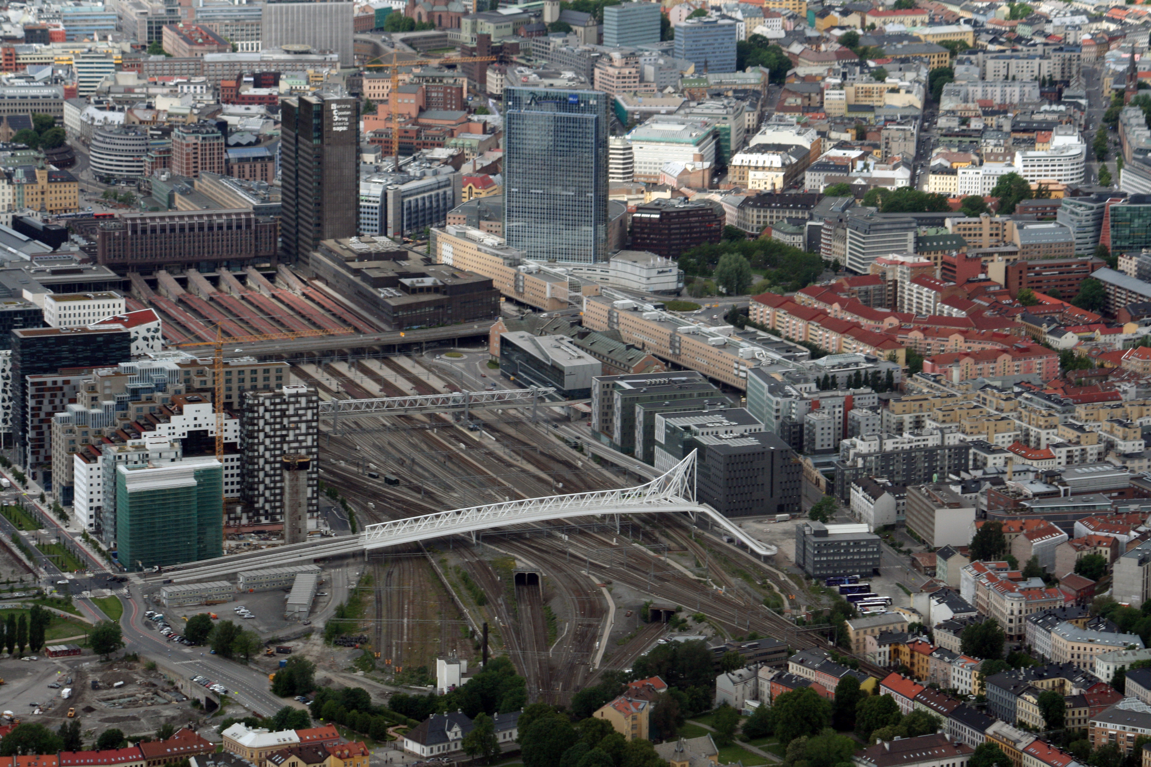 Aerial photograph from June 14th, 2015.